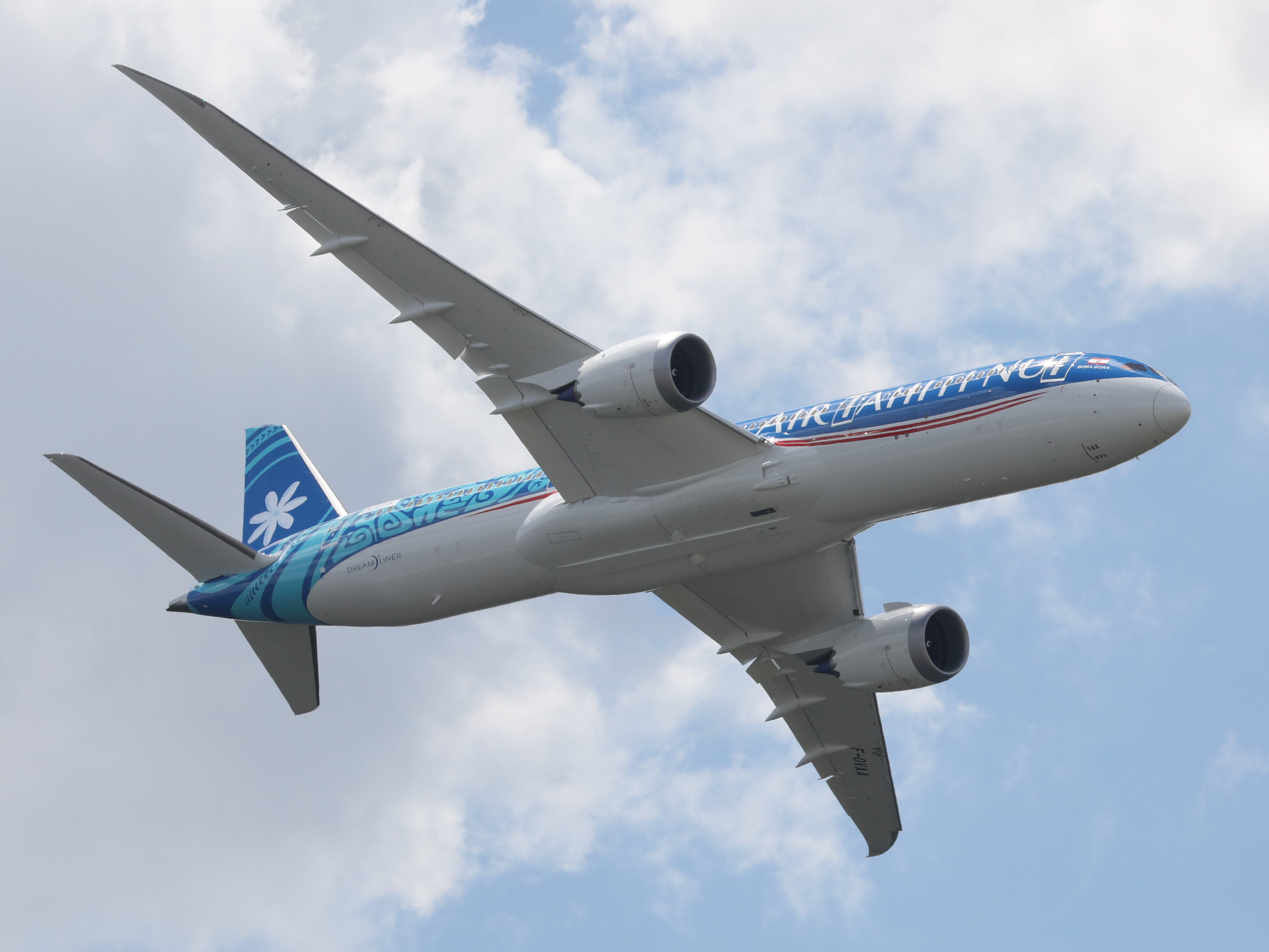 Paris Air Show 2019